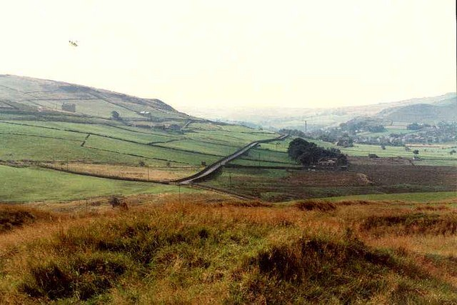 Landscape View from Roman Fort site at Castleshaw in Saddleworth with the village of Delph in the distance to the right 5004